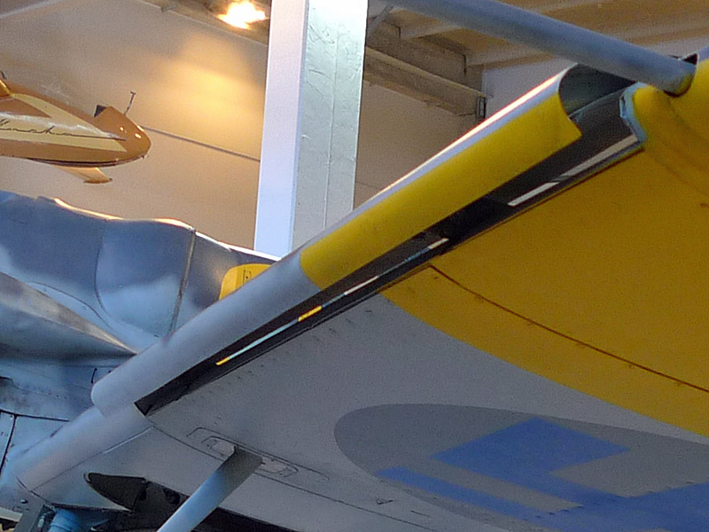 A partially open leading edge slat of Messerschmitt Bf 109 G-6 fighter (MT-507)